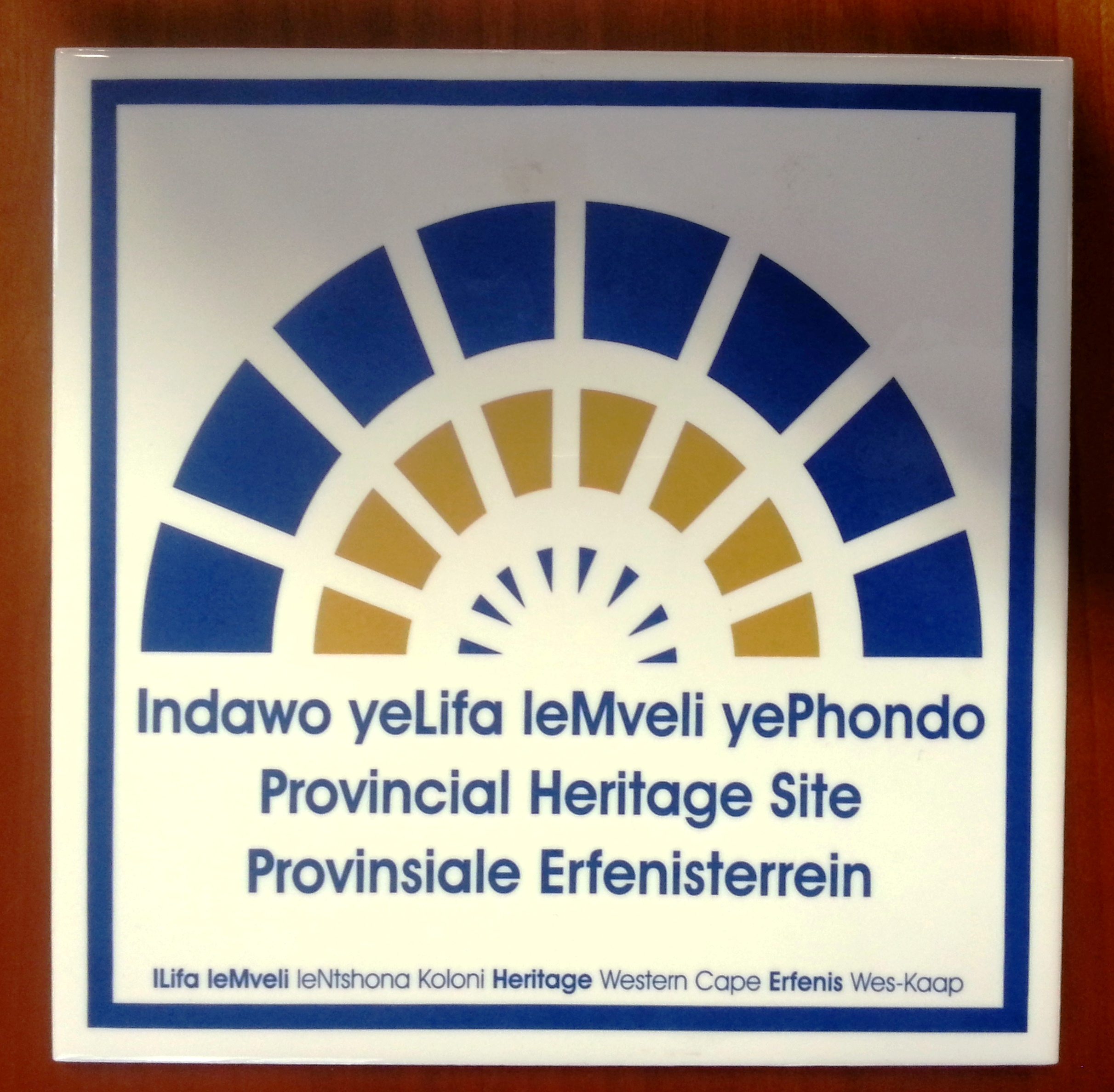 Badge / marker used to mark provincial heritage sites in the Western Cape Province of South Africa. Ceramic tile with transfer. The insignia is the logo of the Heritage Western Cape, the provincial heritage resources authority.